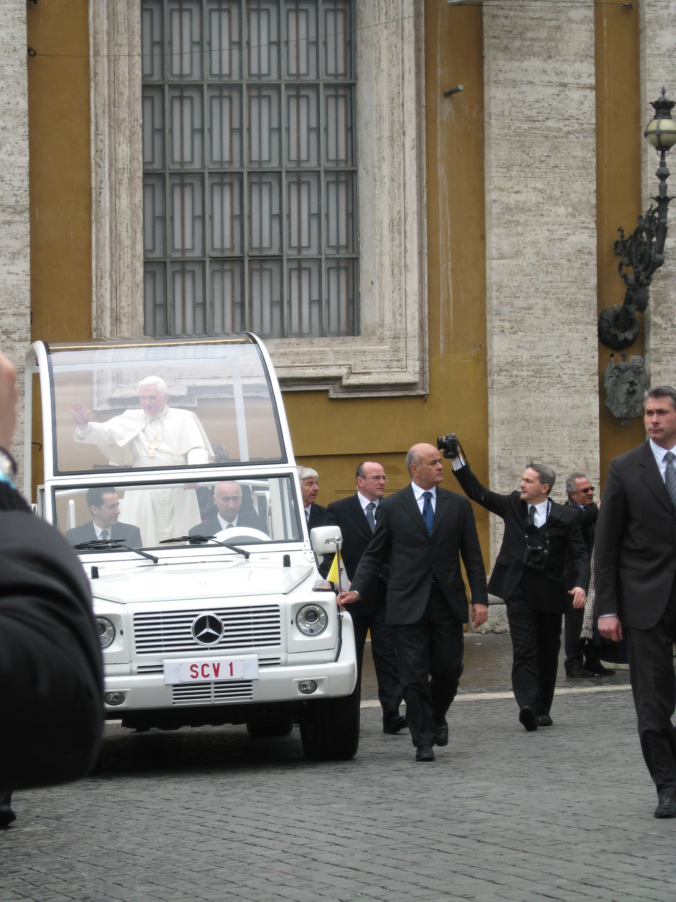 Pope Benedict XVI during the general audience in S. Peter, Vatican City on the 26th March, 2008.